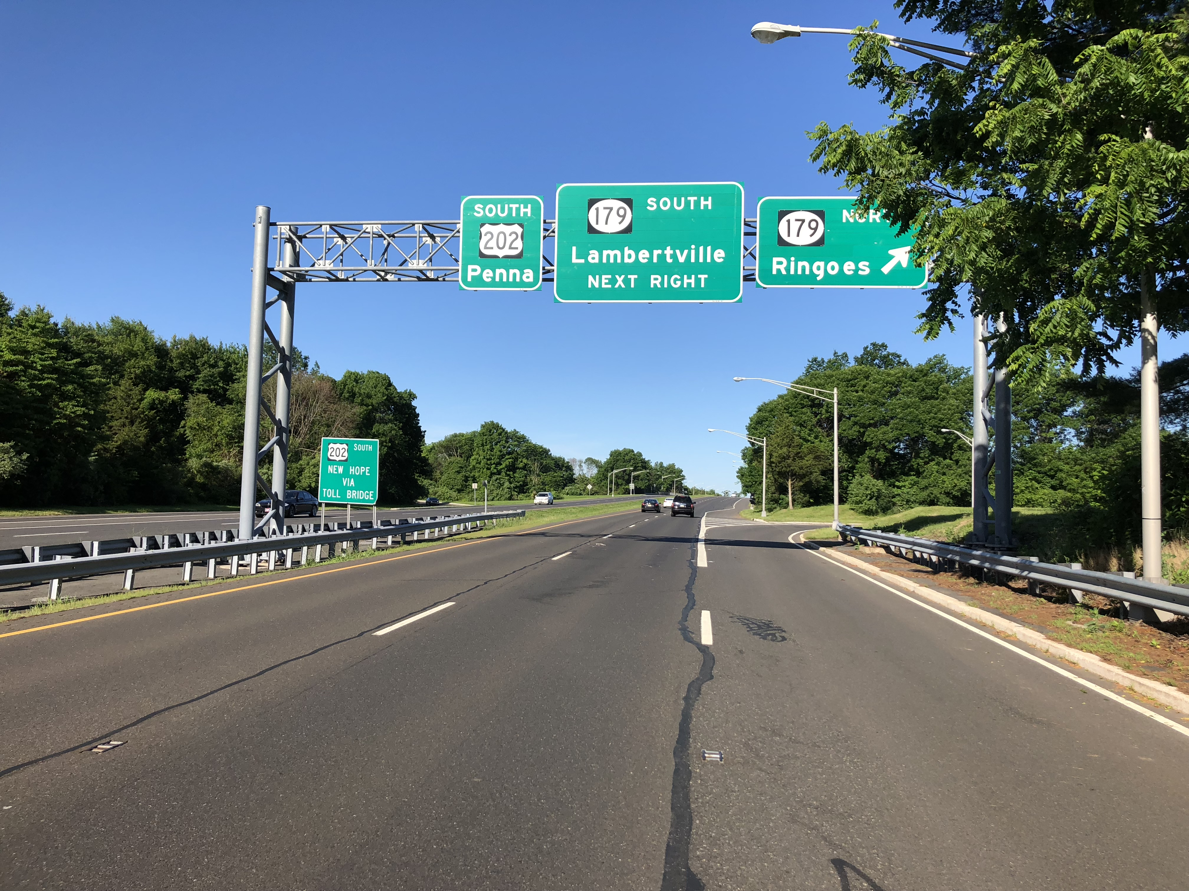 View south along U.S. Route 202 at the exit for New Jersey State Route 179 NORTH (Ringoes) in West Amwell Township, Hunterdon County, New Jersey